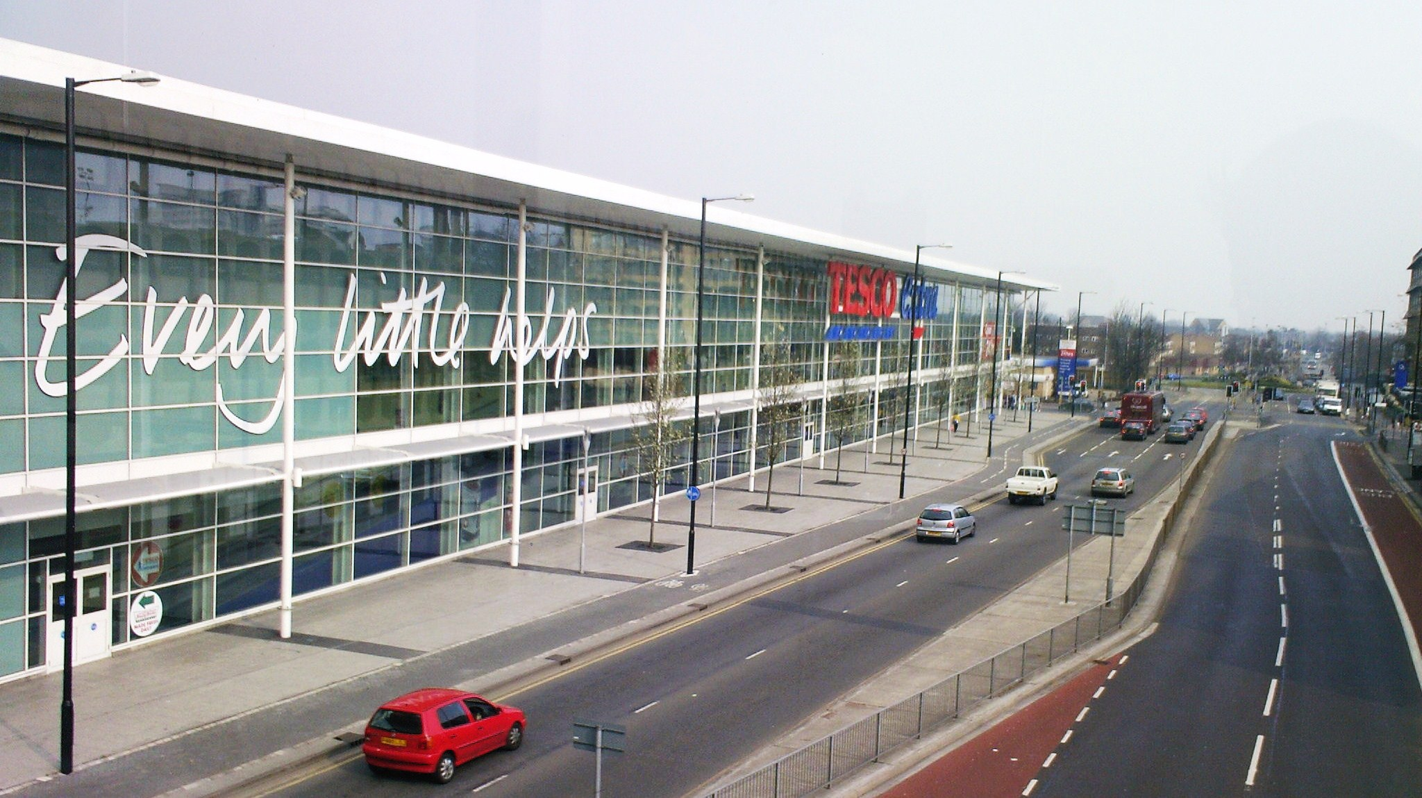 The large Tesco store located on Wellington Street, Slough, Berkshire, United Kingdom